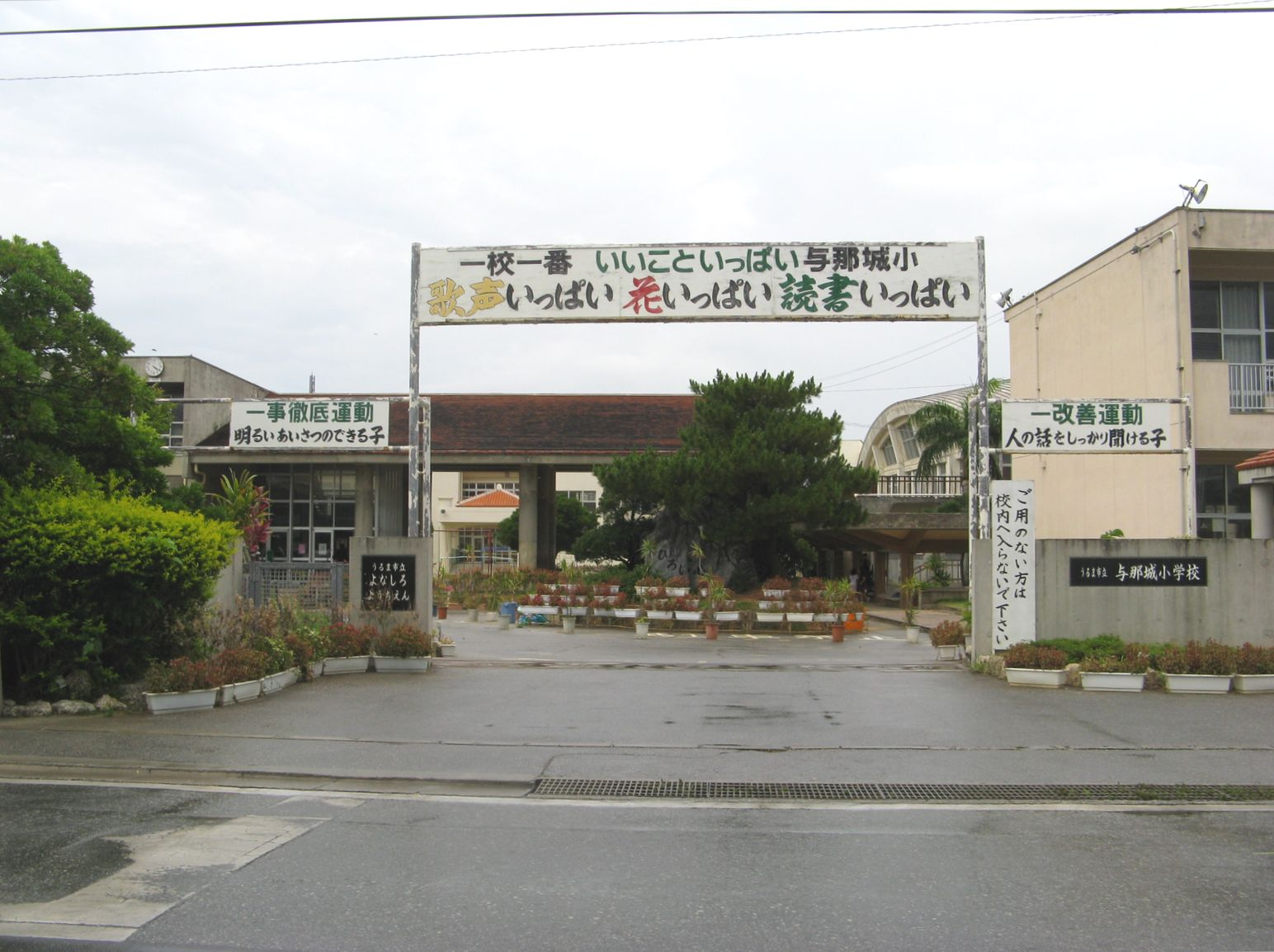 Yonashiro Elementary School, Uruma, Okinawa Prefecture, Japan